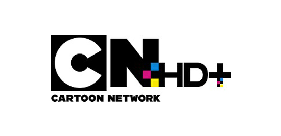 Cartoon Network HD+'s Logo, Since April 15, 2018